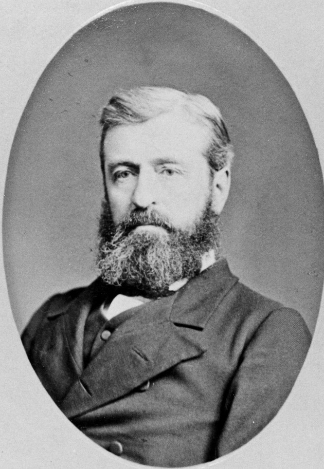 Portrait of James Boucaut.